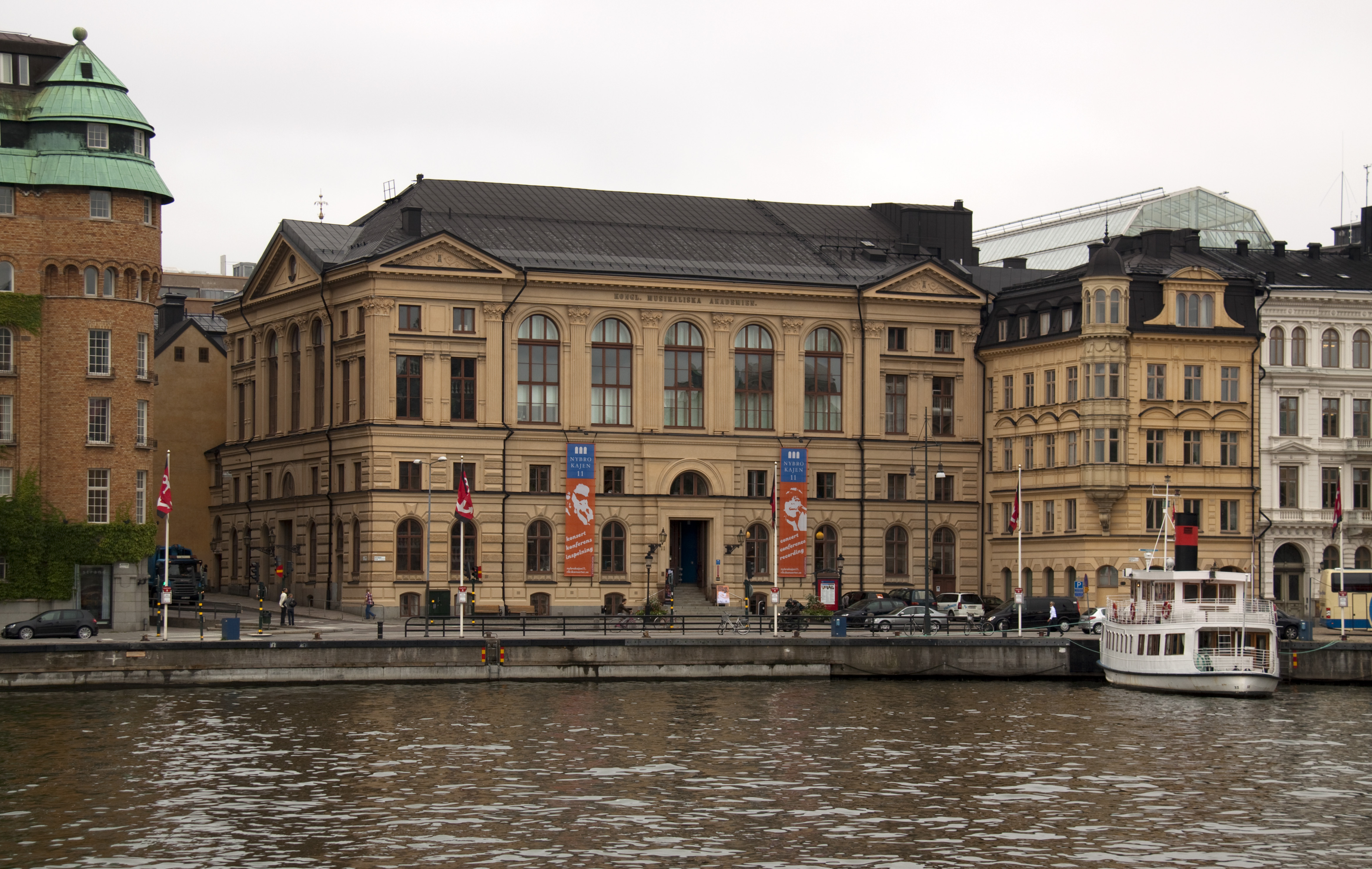 Royal Music Academy's building in Stockholm, Sweden. Eastern side.